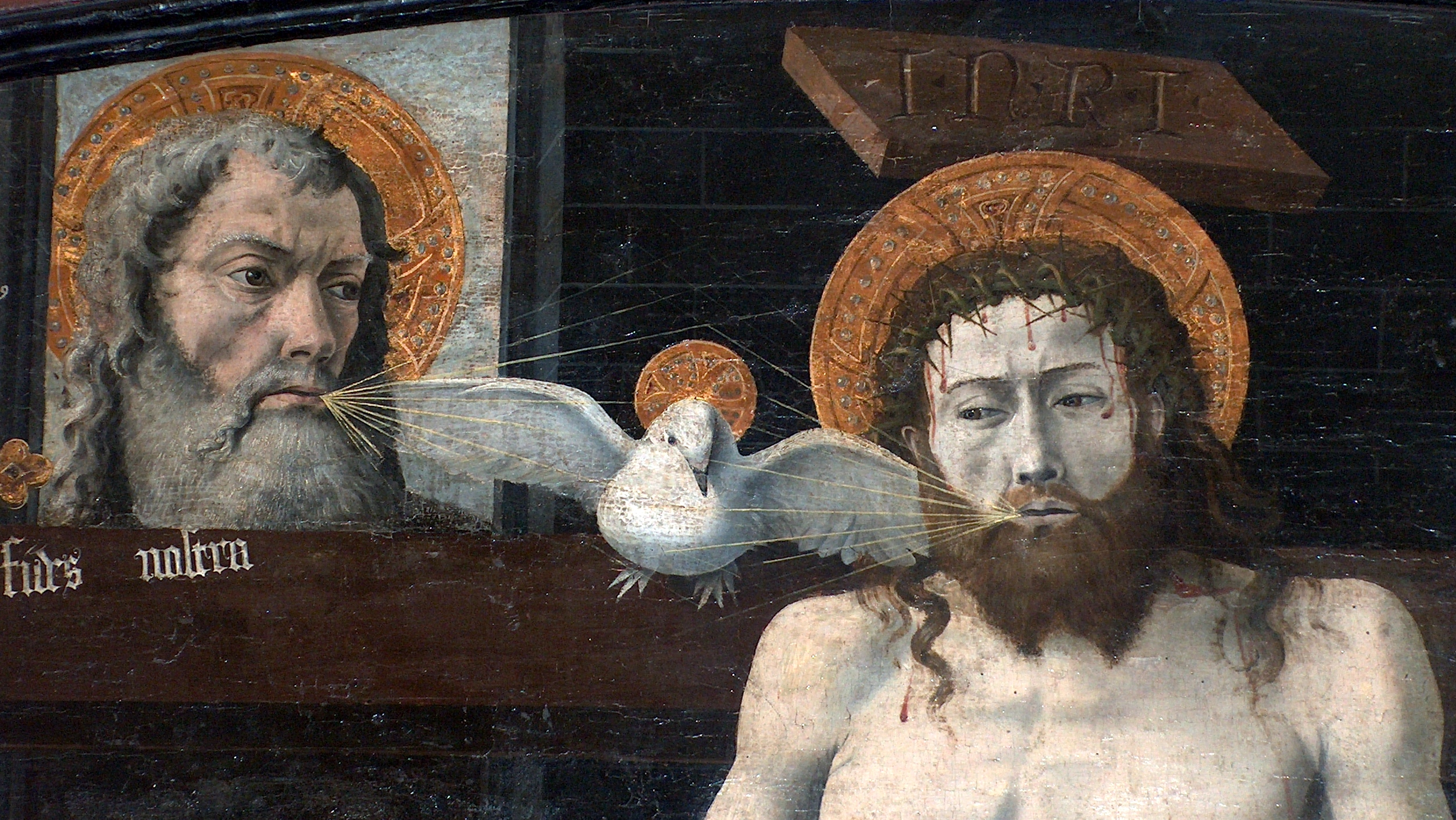 The doctrine of the Filioque, from the Boulbon Altarpiece: The Trinity with a donor presented by St. Agricol. Provence, ca. 1450. From the the high altar of the chapelle Saint-Marcellin, Boulbon, France.